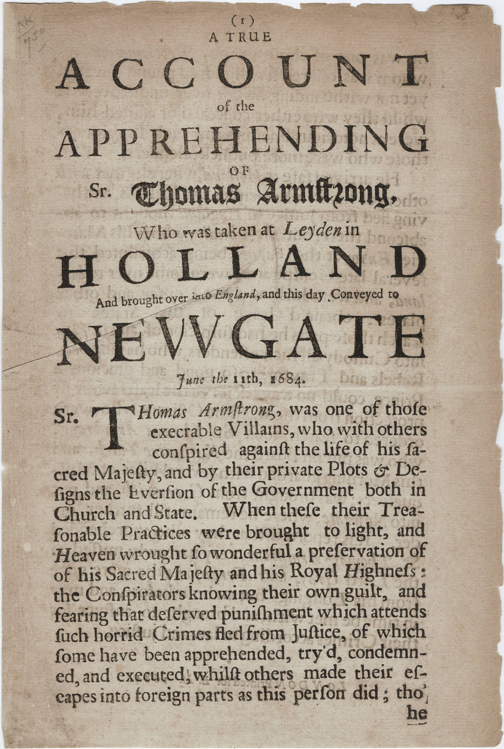 "A true account of the apprehending of Sr. Thomas Armstrong, who was taken at Leyden in Holland and brought over into England, and this day conveyed to Newgate June the 11th, 1684." Broadside, published at London. Courtesy of the Beinecke Rare Book & Manuscript Library, Yale University.[1]